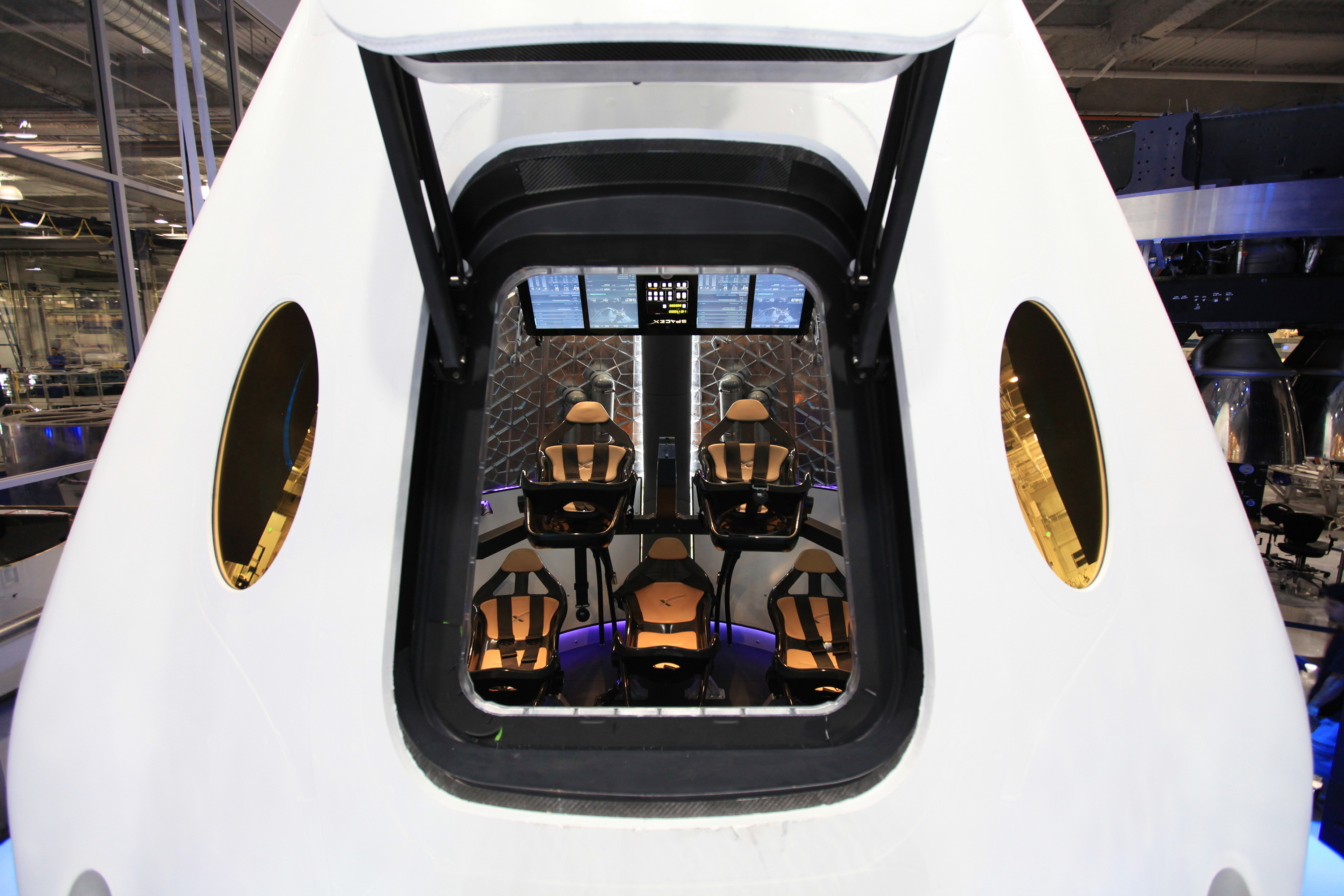 A look through the open hatch of the Dragon V2 reveals the layout and interior of the seven-crew capacity spacecraft. SpaceX unveiled the new spacecraft during a ceremony at its headquarters in Hawthorne, Calif. The Dragon V2 is designed to carry people into Earth's orbit and was developed in partnership with NASA's Commercial Crew Program under the Commercial Crew Integrated Capability agreement. SpaceX is one of NASA's commercial partners working to develop a new generation of U.S. spacecraft and rockets capable of transporting humans to and from Earth's orbit from American soil. Ultimately, NASA intends to use such commercial systems to fly U.S. astronauts to and from the International Space Station.